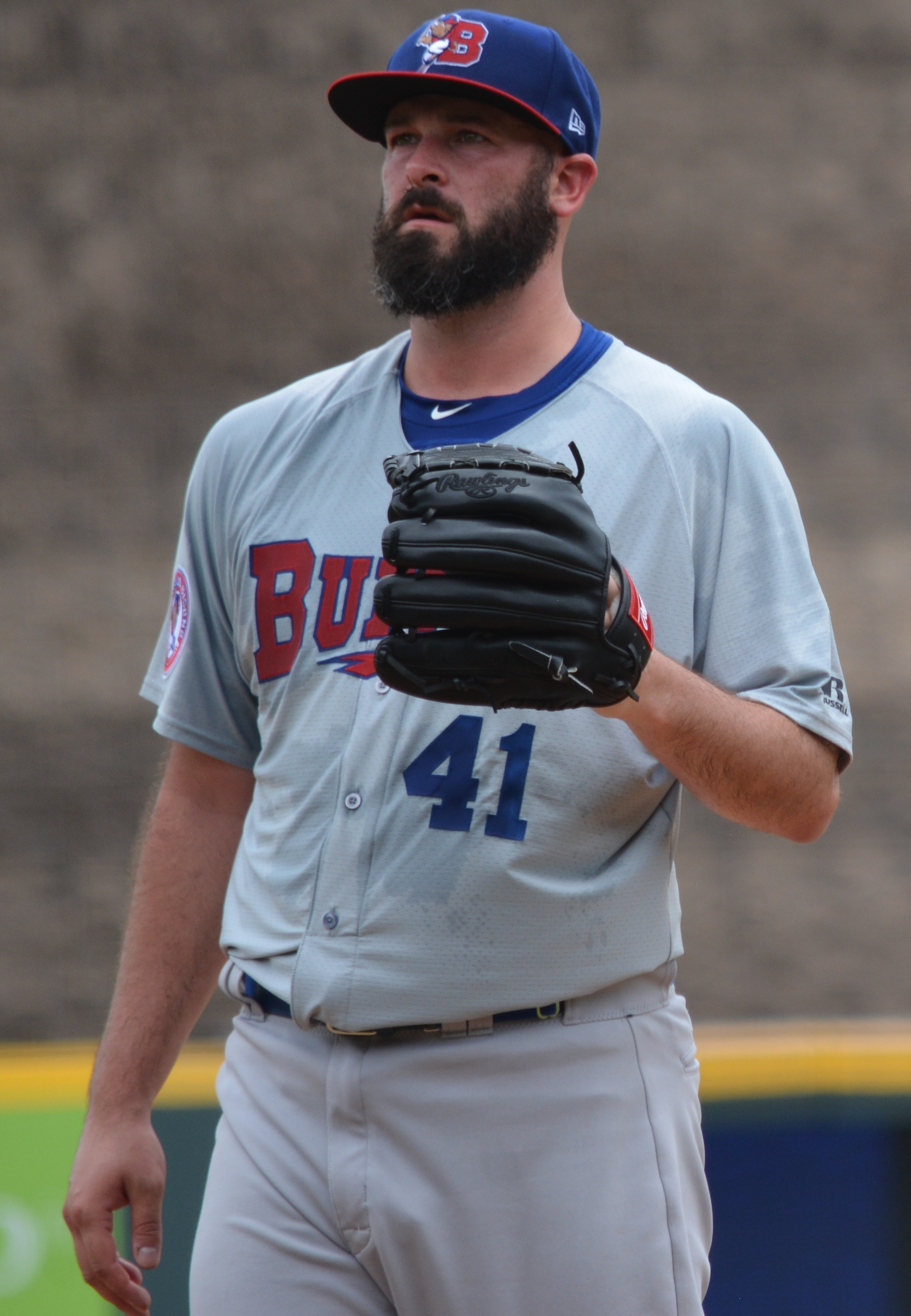 Mike Hauschild with the Buffalo Bisons during a game in August 2018